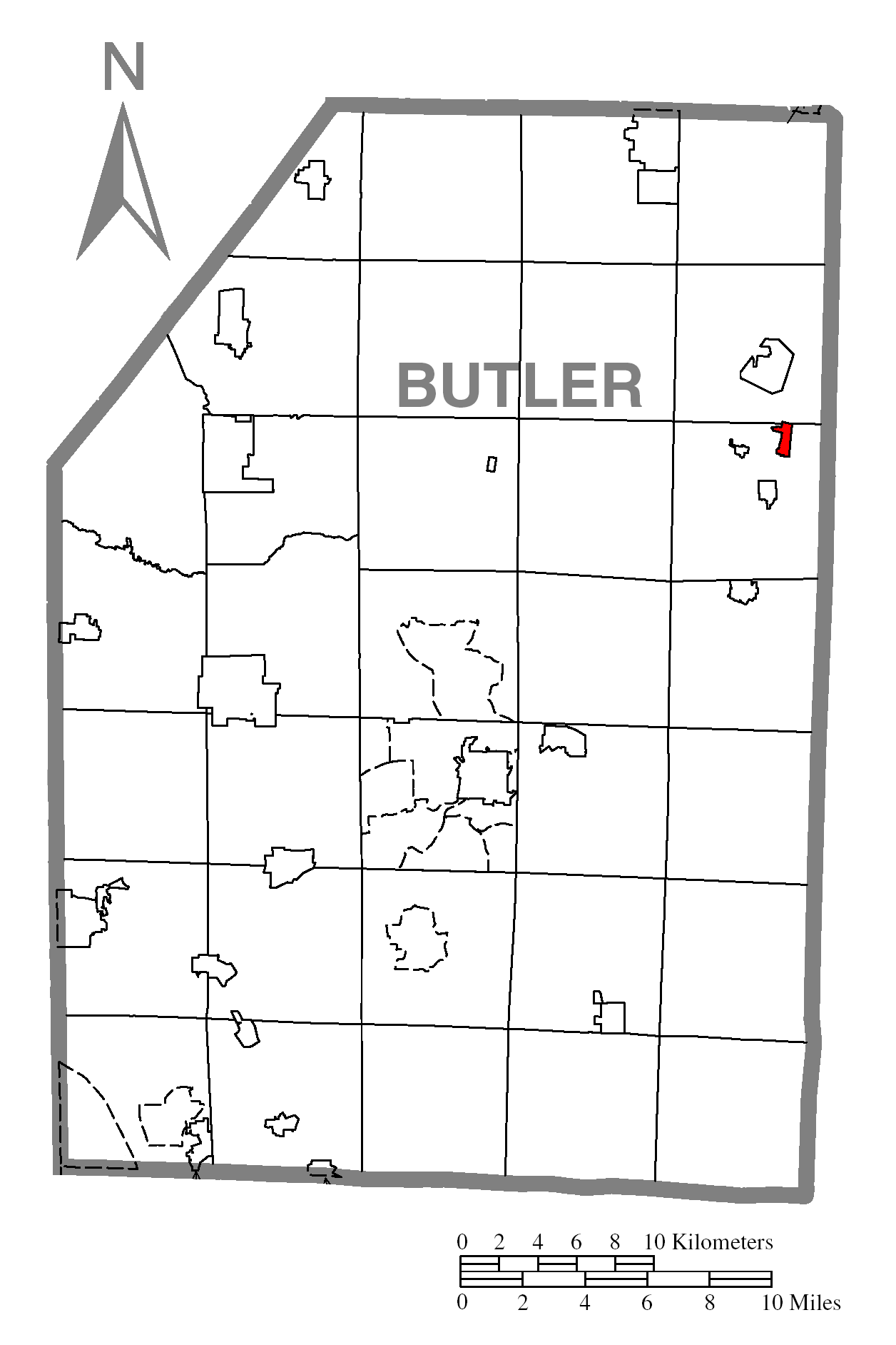 A map of Butler County showing Petrolia, Pennsylvania (alternate) highlighted on the map.